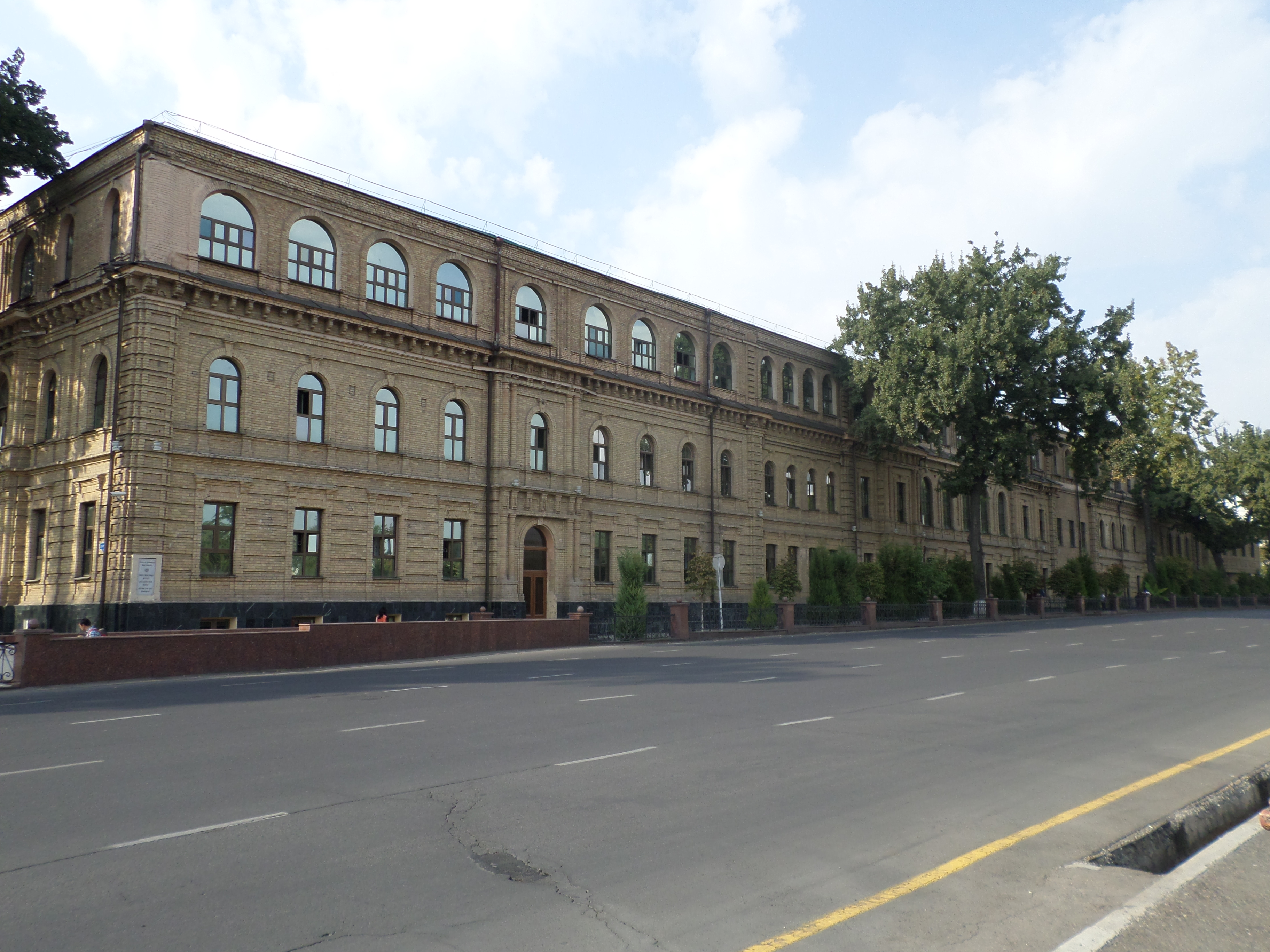 Men gymnasium